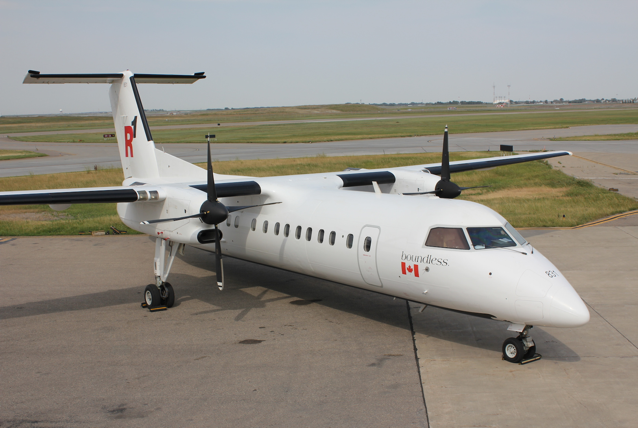 Newly branded R1 Airlines Bombardier Dash 8 used to transport clients and their workforce for business purposes to remote and densely populated regions in the world.